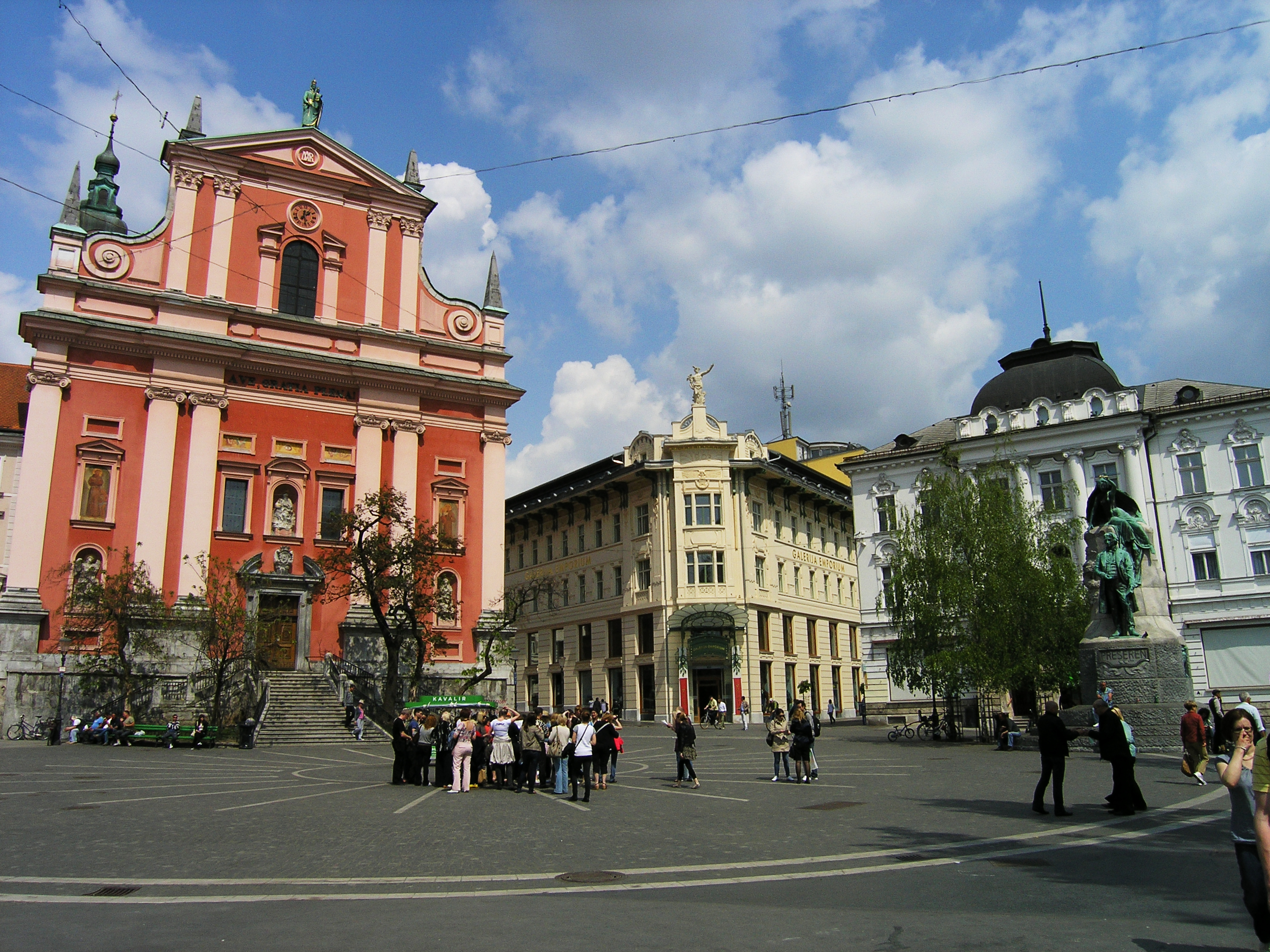 Prešeren Square, the central square of Ljubljana, Slovenia. On the left side stands the Franciscan Church.